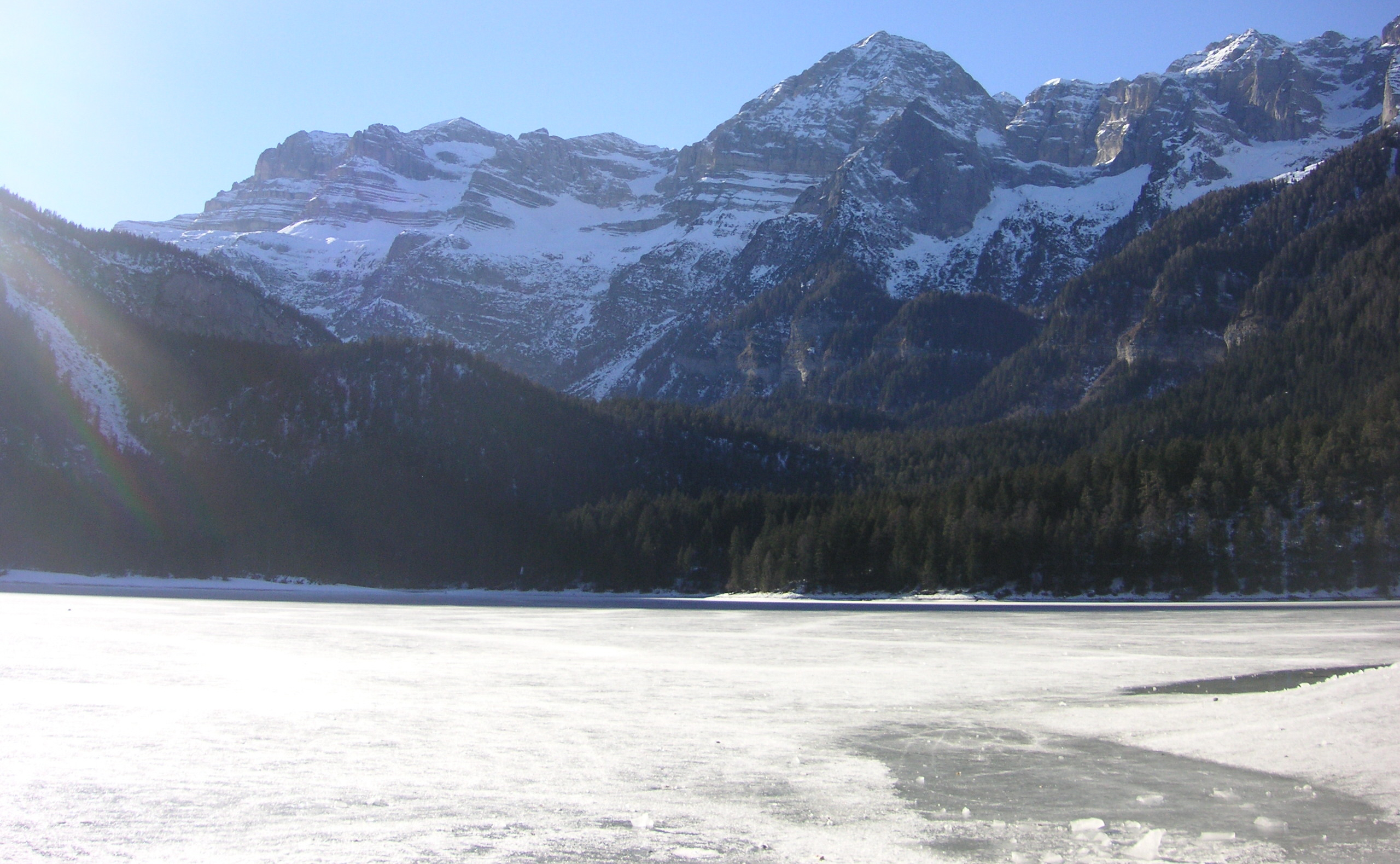 Frozen Lake Tovel